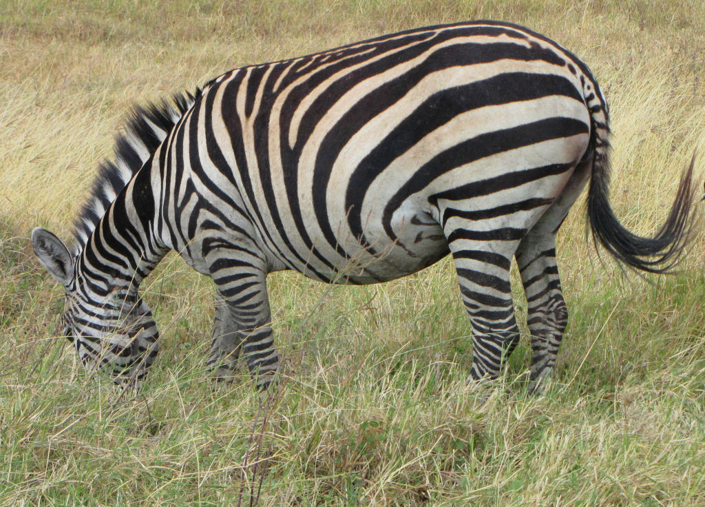 Grant's Zebra (Equus quagga boehmi), pregnant, Serengeti, Tanzania